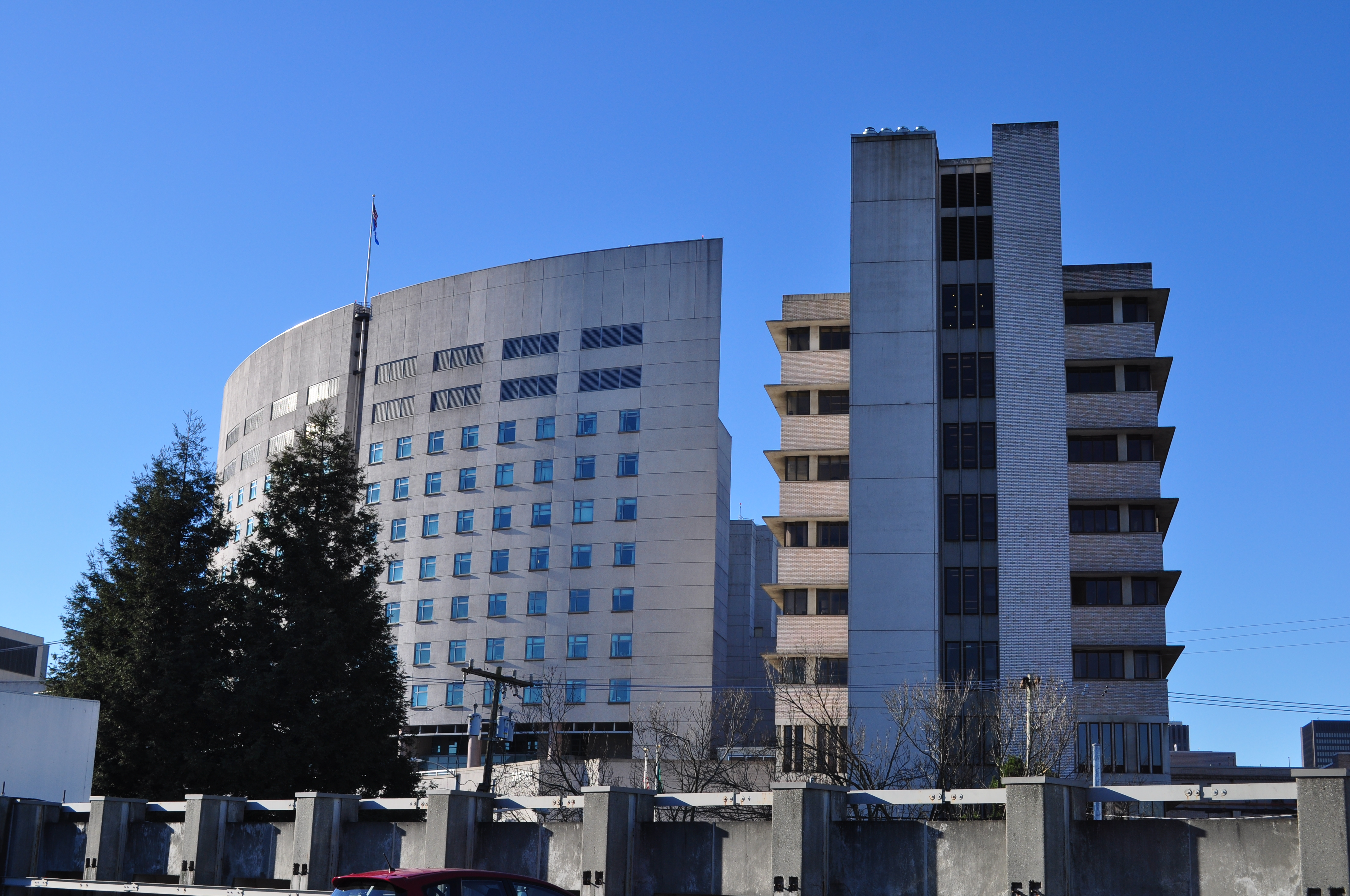 Swedish Medical Center - First Hill Campus, Broadway, Seattle, Washington. Seen here from atop the Broadway garage of Seattle University.